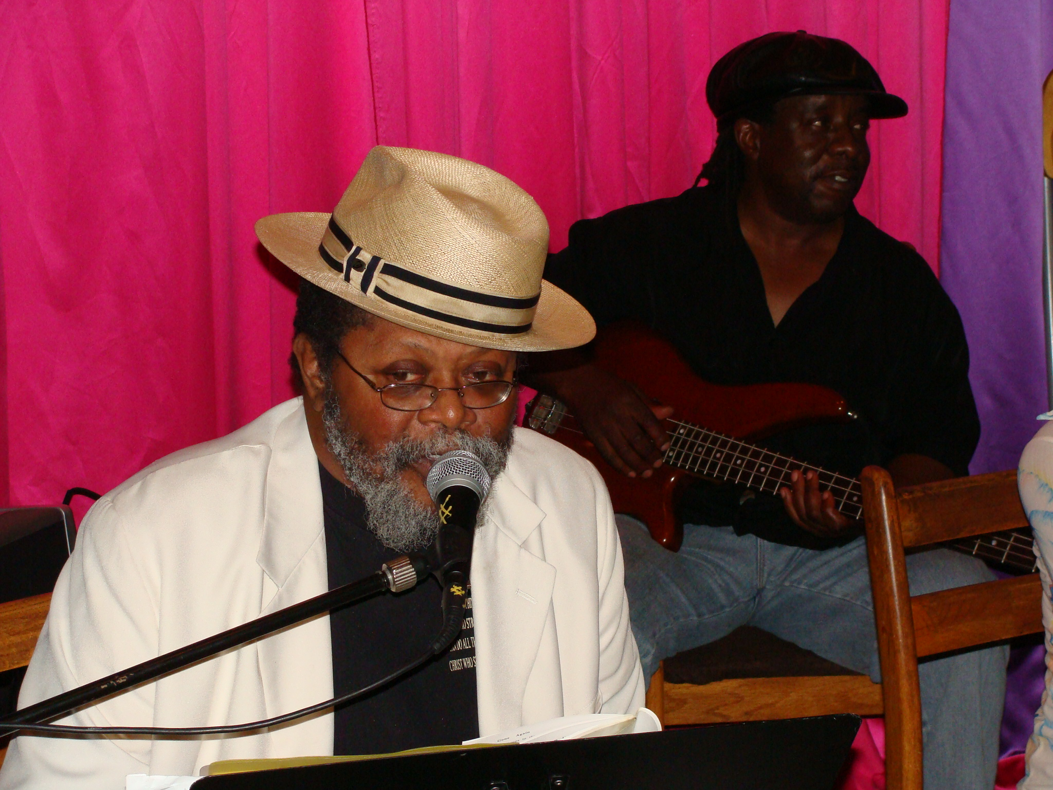 Ron Allen performing with Code Zero in Los Angeles, 2009. (Caption from photo on Wikipedia page).